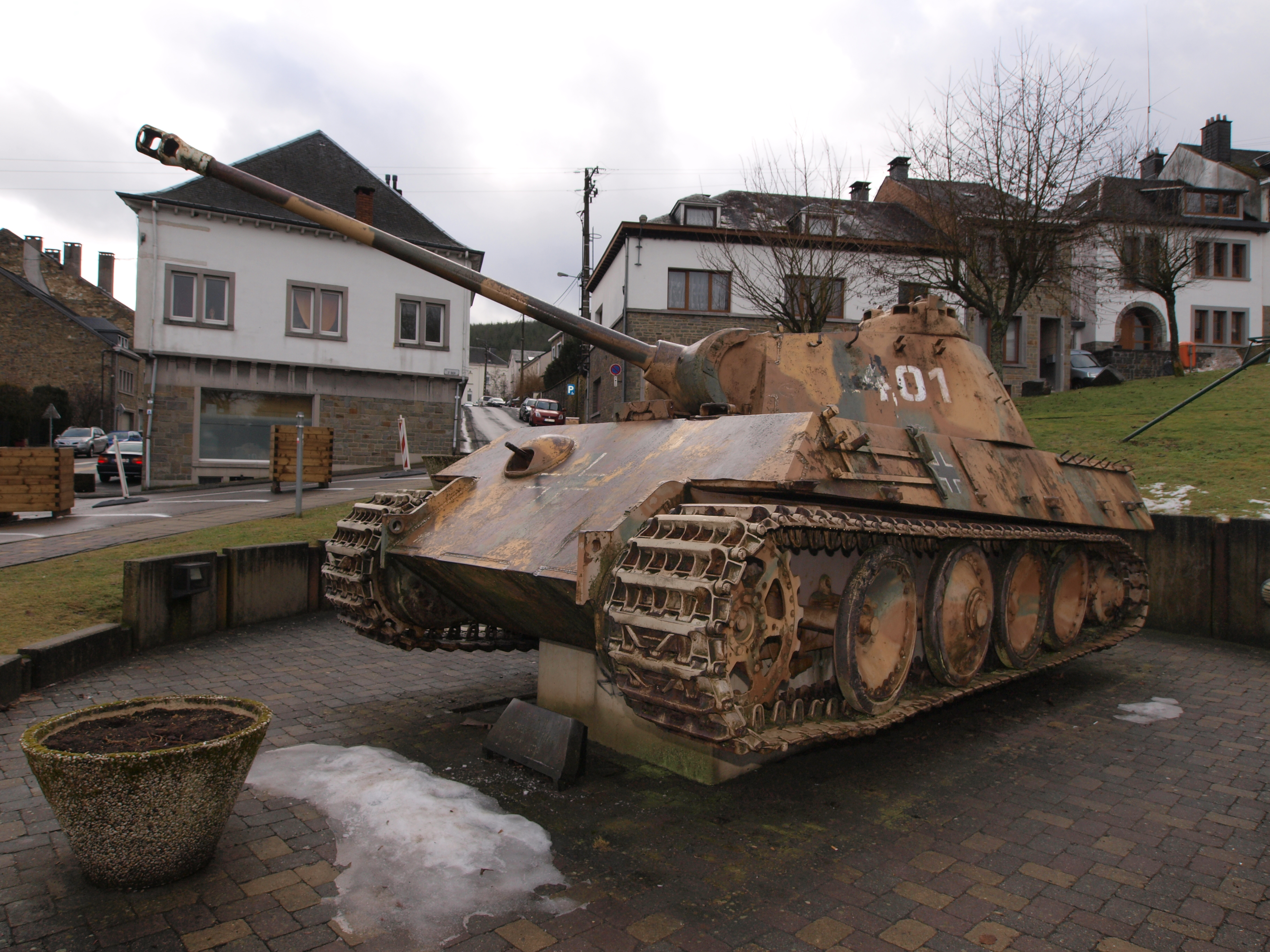 Panther type G (Sd.Kfz.171) at )Houffalize, Belgium